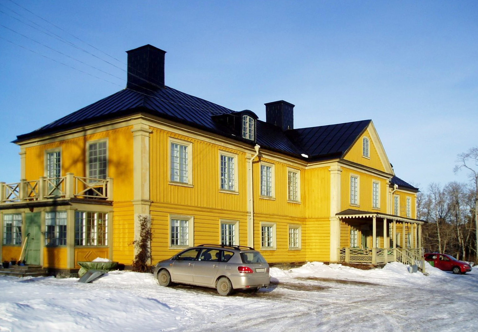 Mansion at Boo, Nacka Municipality, Sweden